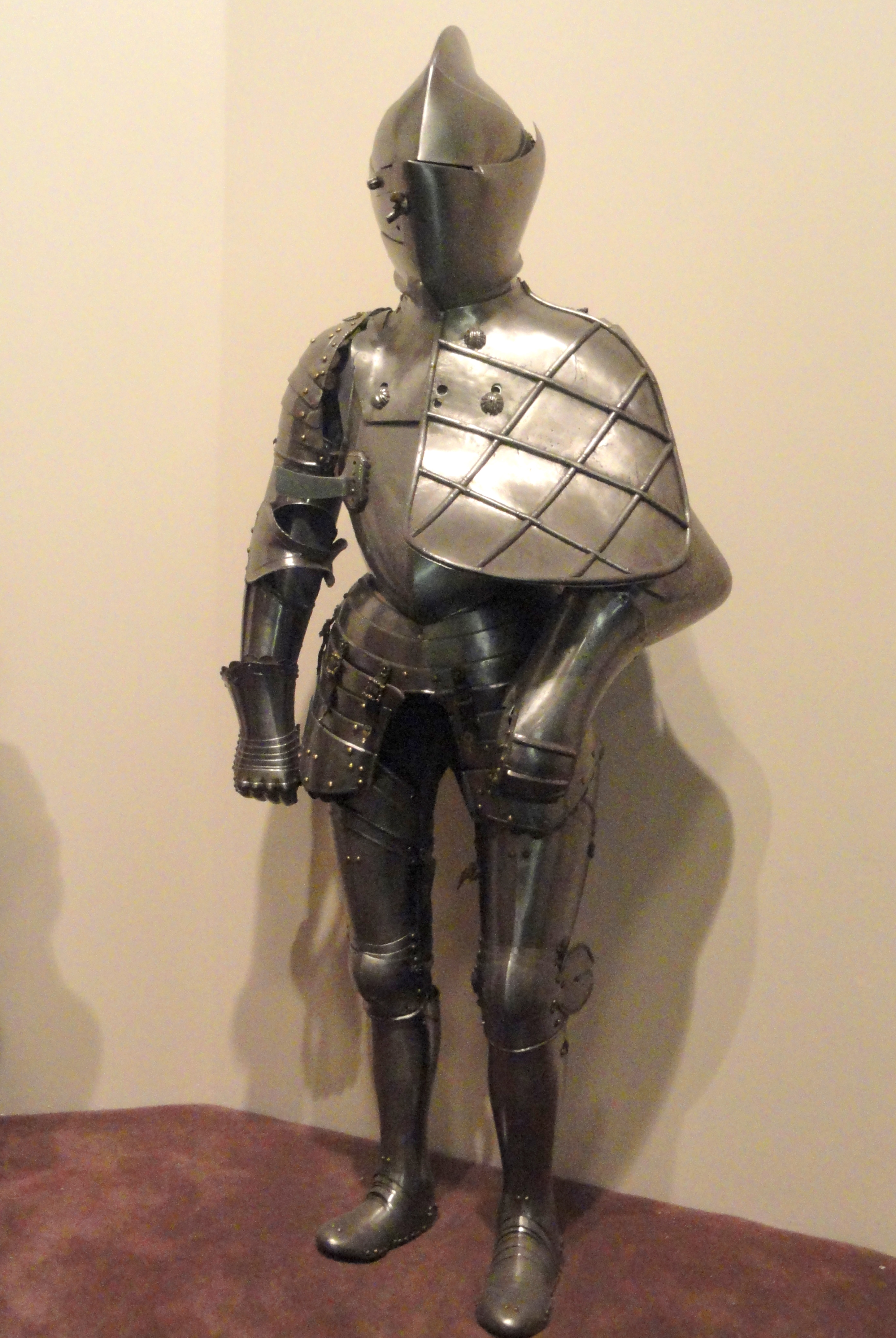 Exhibit in the Higgins Armory Museum, 100 Barber Avenue, Worcester, Massachusetts, USA. The museum permitted photography without any restriction, both in writing and when I asked verbally.